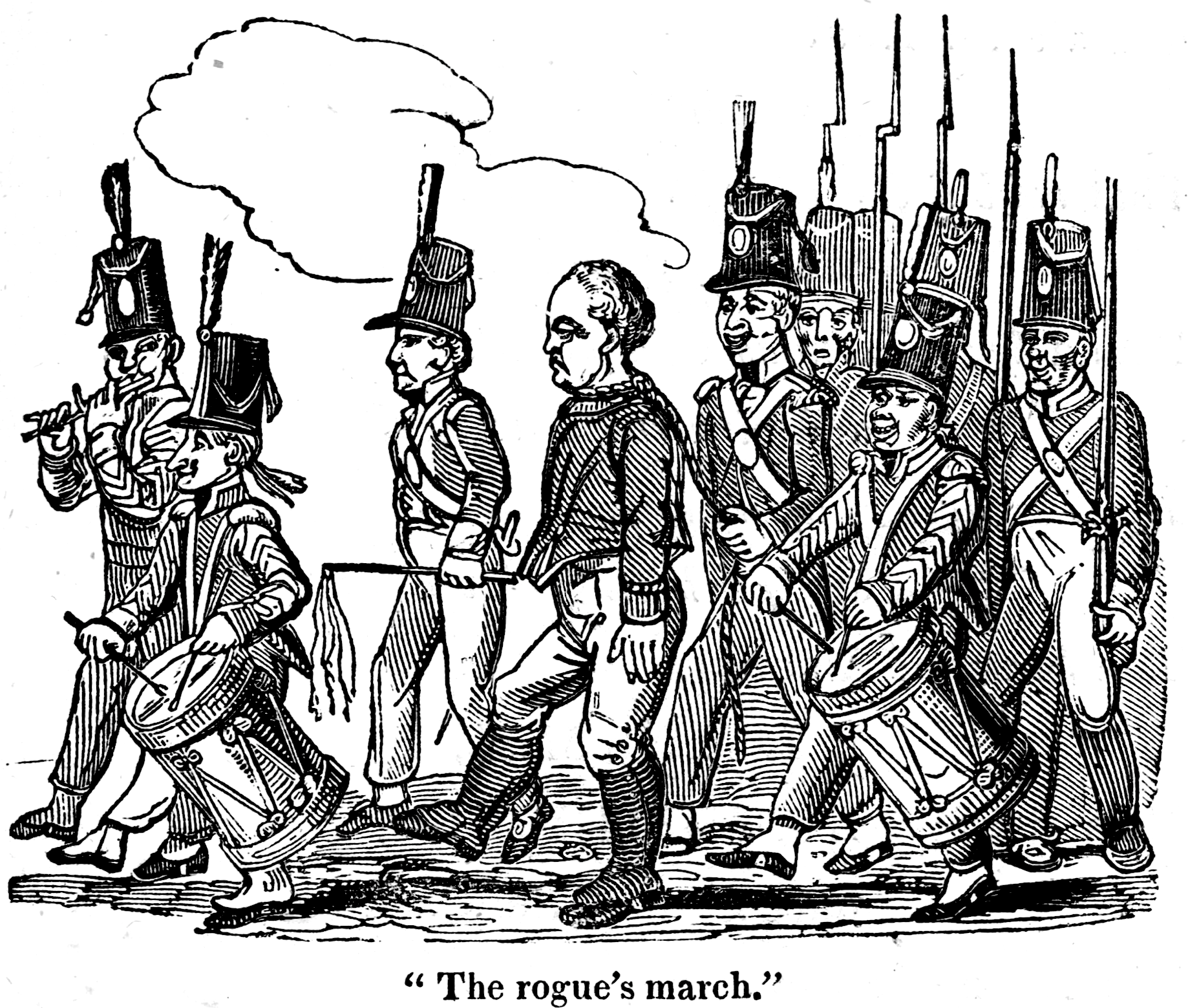 A Radical politician is led away to the fifes and drums of Rogue's March. From 'the Tory pamphlet "The British constitution triumphant: or, A picture of the radical conclave" ( Source: Cowen Tracts).